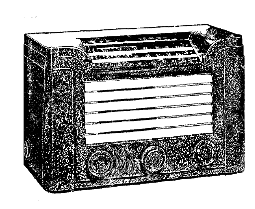 A painting depicting His Master's voice Radio set, printed in an advertisement in Telugu magazine called Gunturu Patrika